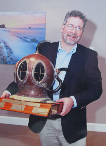 portrait of Innes McCartney